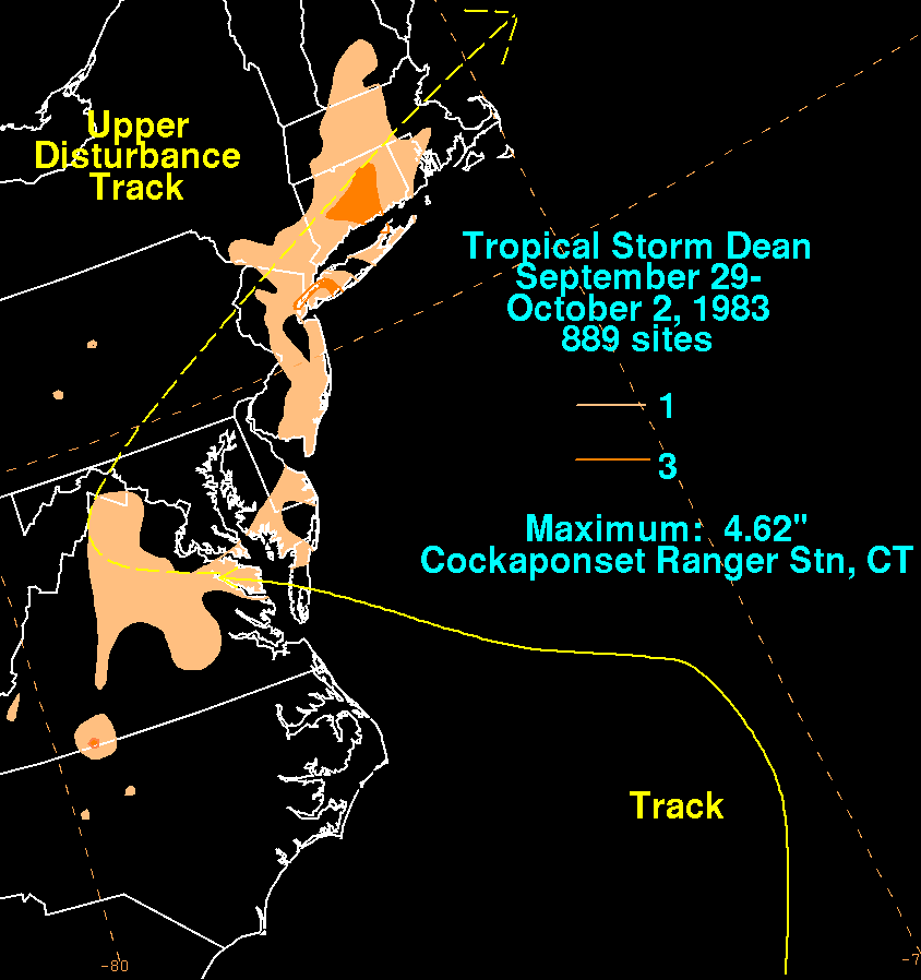 Rainfall produced by Tropical Storm Dean during September and October 1983.